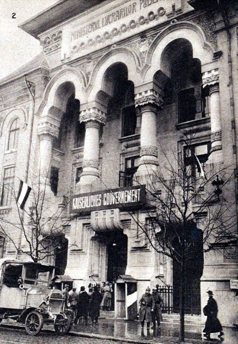 Headquarters of the “Imperial Government” (Kaiserlische Gouvernment) in Bucharest during the German occupation (1916–1918). These headquarters were located in the building of the former Department of Labour, now the town hall of Bucharest.